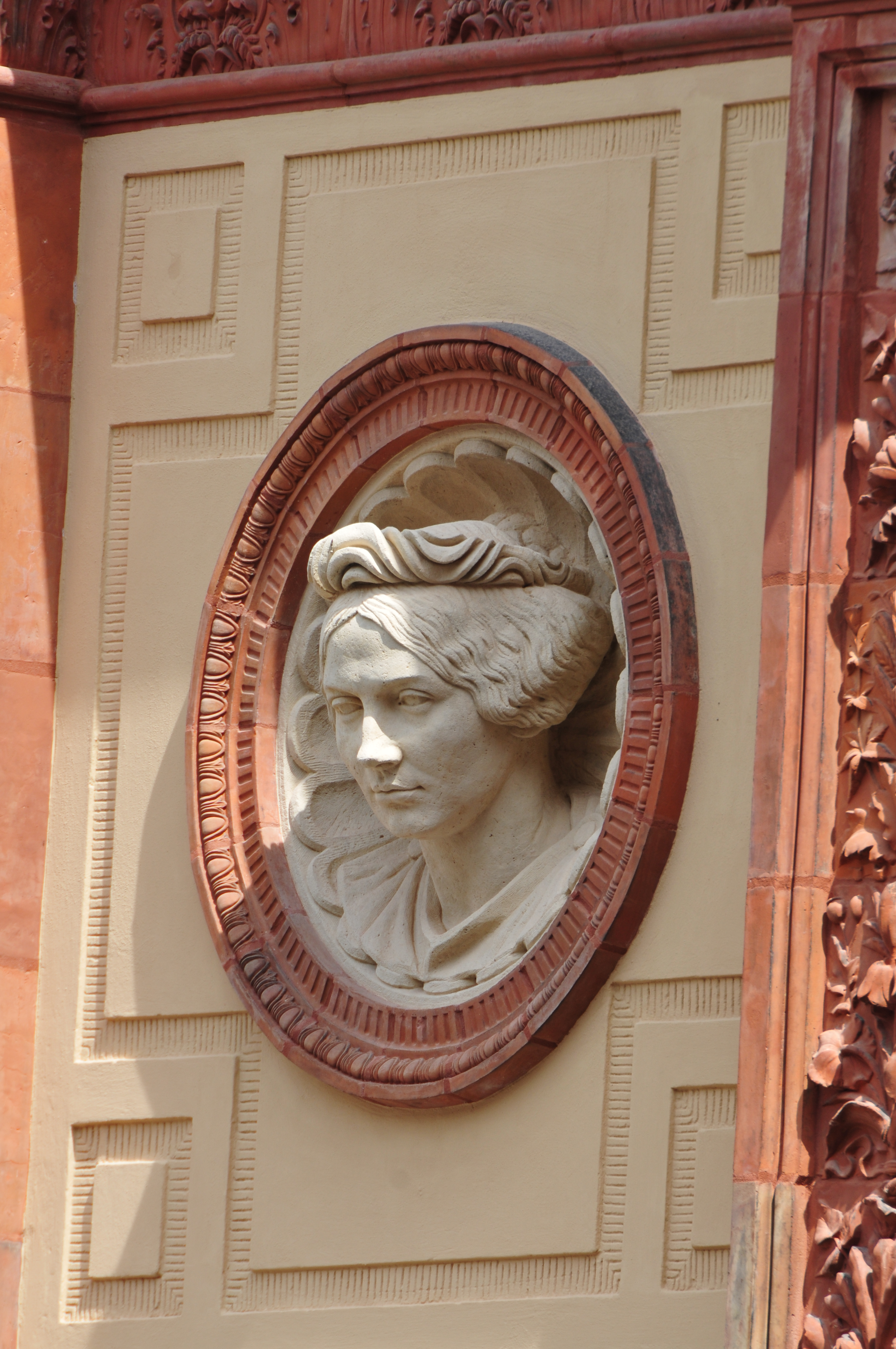 Detail view of Schwerin Castle.